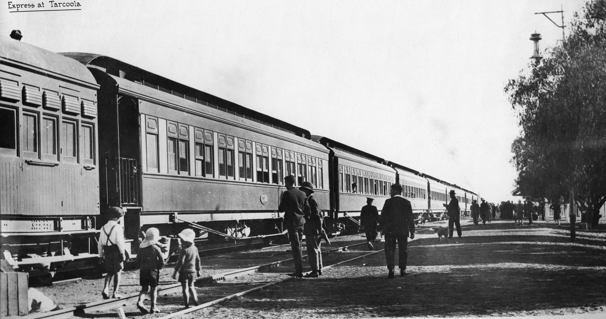 A westbound Commonwealth Railways Trans-Australian Express, at Tarcoola, South Australia, on the Trans-Australian Railway.